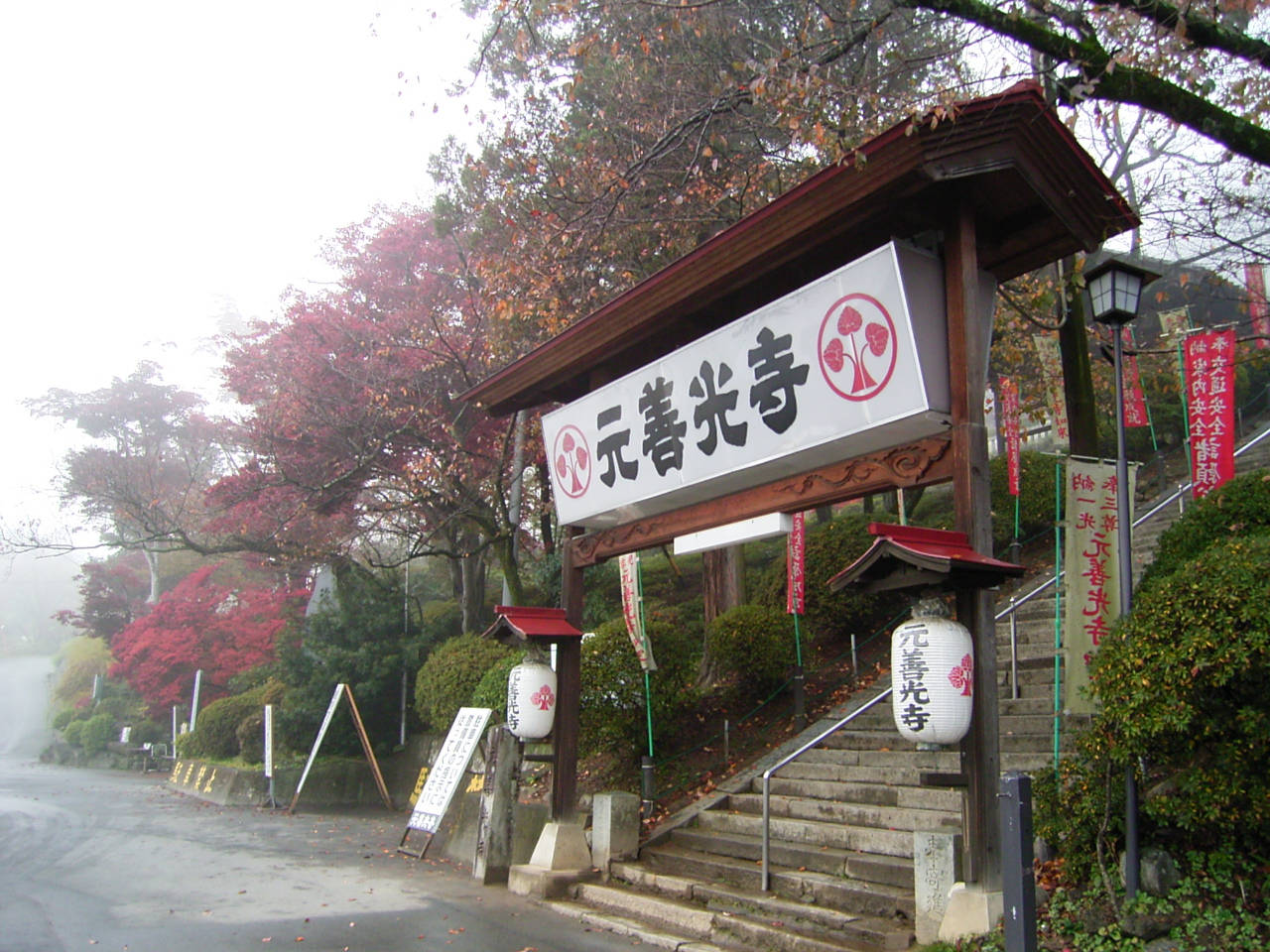 Moto-Zenkoji temple Nagano Japan